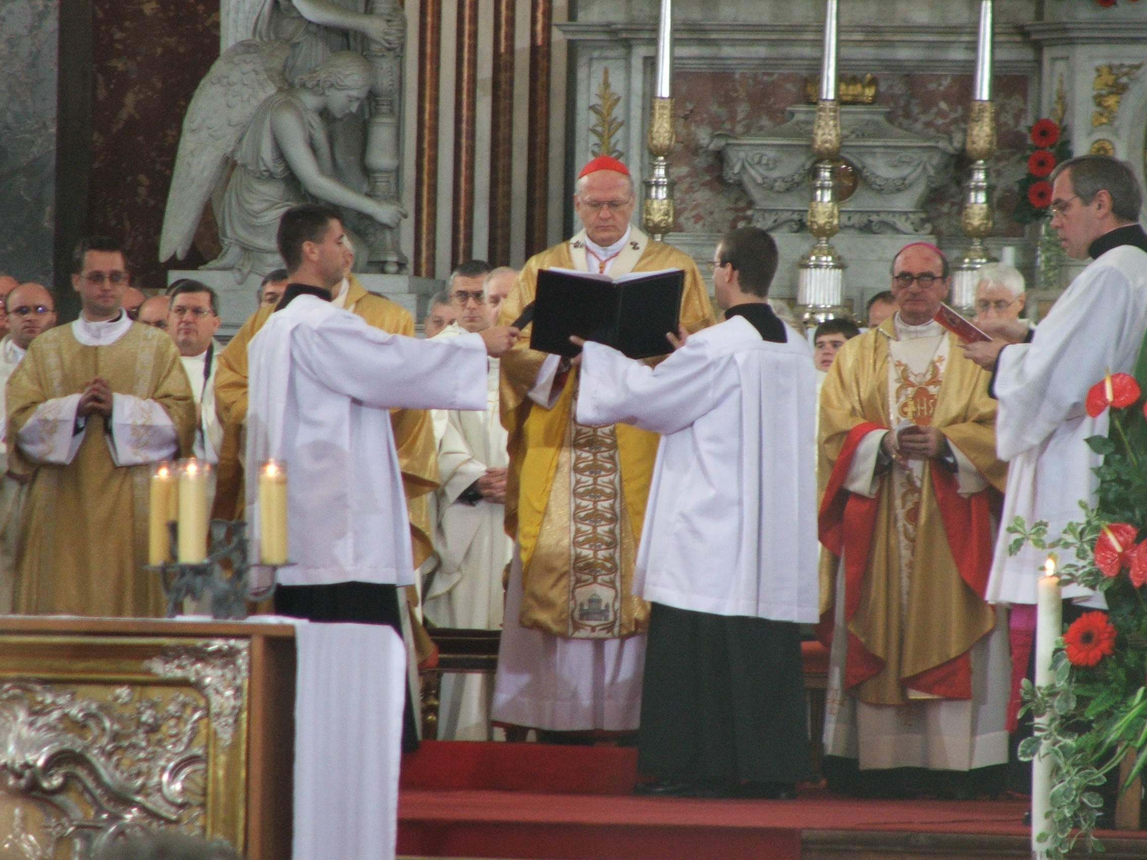 Beatification ceremony of Zoltán Meszlényi